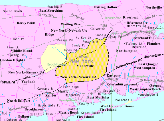 U.S. Census 2000 reference map for Manorville